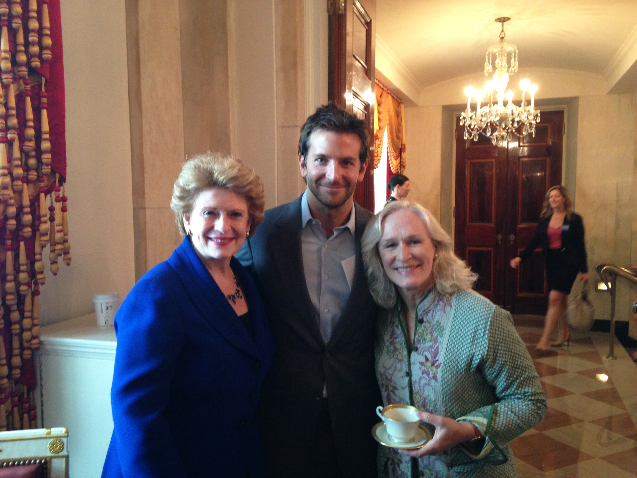 Senator Stabenow joins actors Bradley Cooper and Glenn Close, President Obama, Vice President Biden, mental health advocates and others at the White House National Conference on Mental Health on Monday, June 3. This photograph is provided by the Office of U.S. Senator Debbie Stabenow.